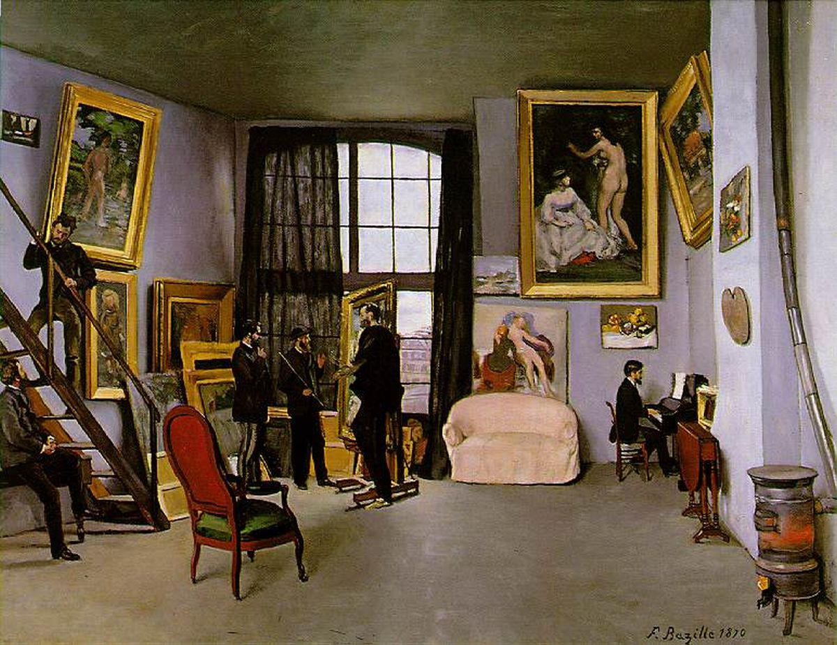 The studio of the artist in Paris, rue de La Condamine; Astruc or Monet at the easel; Manet and Bazille; Edmond Maitre at the piano.